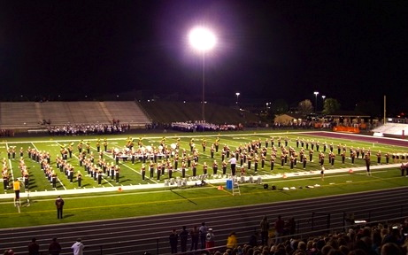 The Stow-Munroe Falls High School Bulldog Marching Band performs during the 2013 Stow Band Show held at SMFHS athletic stadium in Stow, Ohio, United States